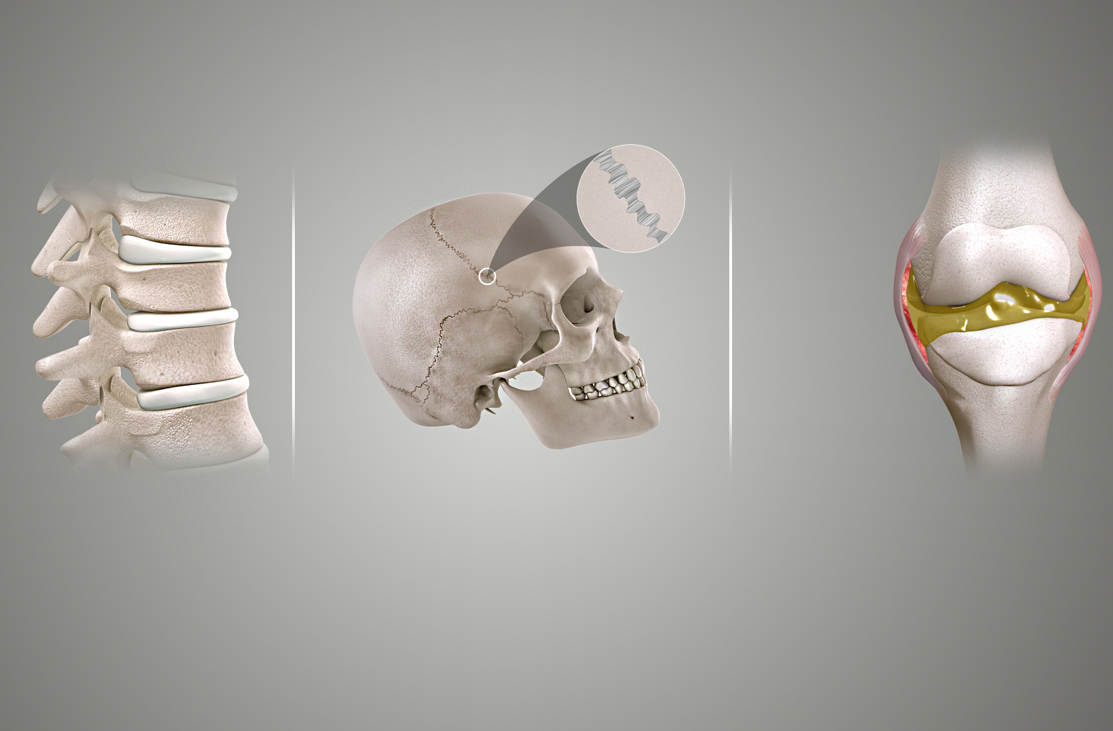 (L to R): Cartilaginous joint here bones are attached by fibrocartilage/ hyaline cartilage. Fibrous joint are the ones where bones are bound by tough fibrous tissue. Joints filled with synovial fluid are called Synovial joint.